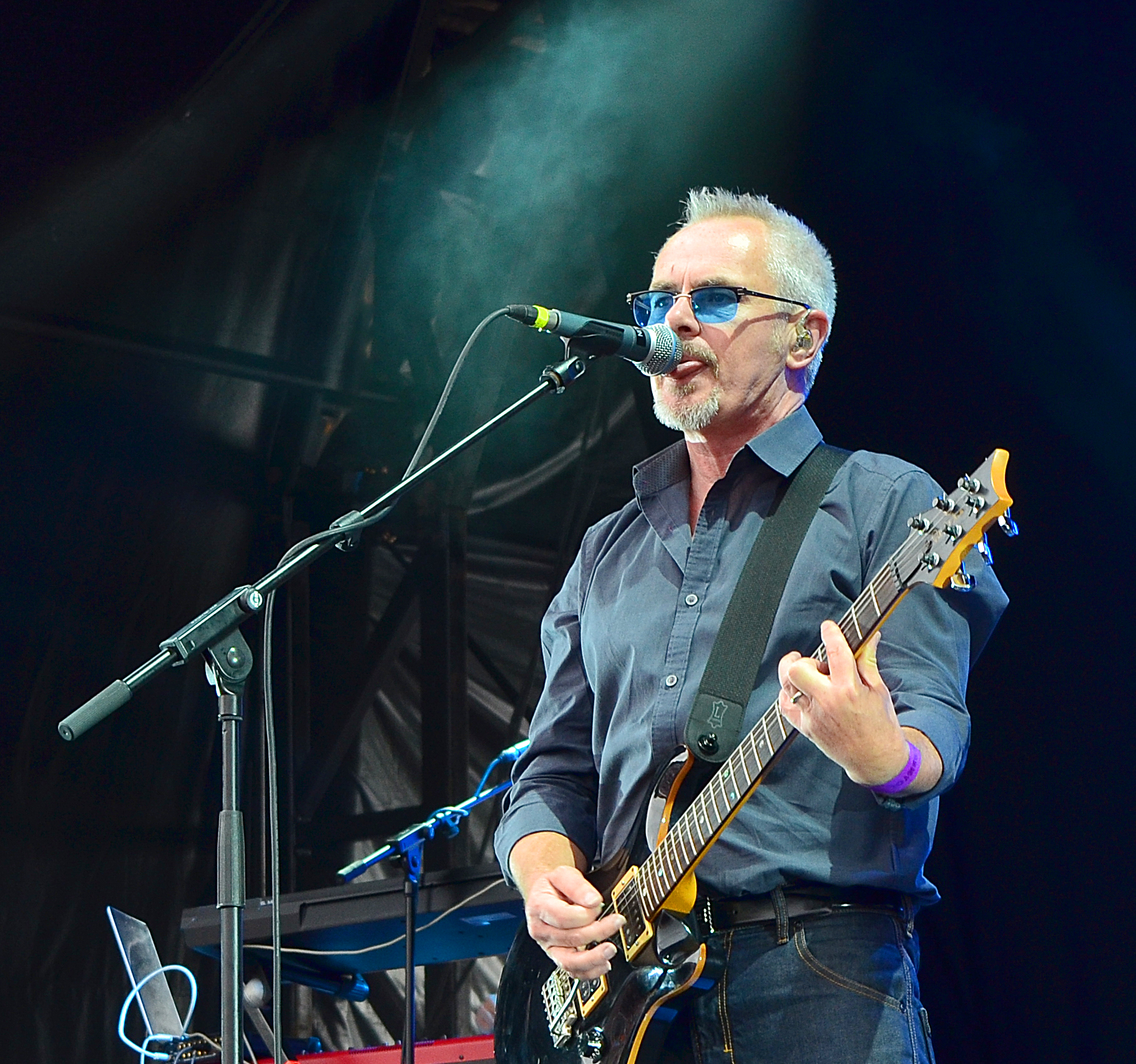 Let's Rock Bristol took place at The Ashton Court Estate, Bristol, 6-8 June 2014. It was attended by over 10,000 people. The festival included the following (mainly British) artists: Then Jerico, Brother Beyond, Bananarama, Tony Hadley, Belinda Carlisle, Alexander O'Neil, Go West, Boney M, Midge Ure, Heaven 17, The Christians, China Crisis, Doctor and The Medics, Sonia, Jaki Graham, Carol Decker of T'Pau, Level 42, Rick Astley, Kim Wilde, ABC, Nik Kershaw, Matt Bianco, Imagination, The Blow Monkeys, Toyah and Johnny Hates Jazz.